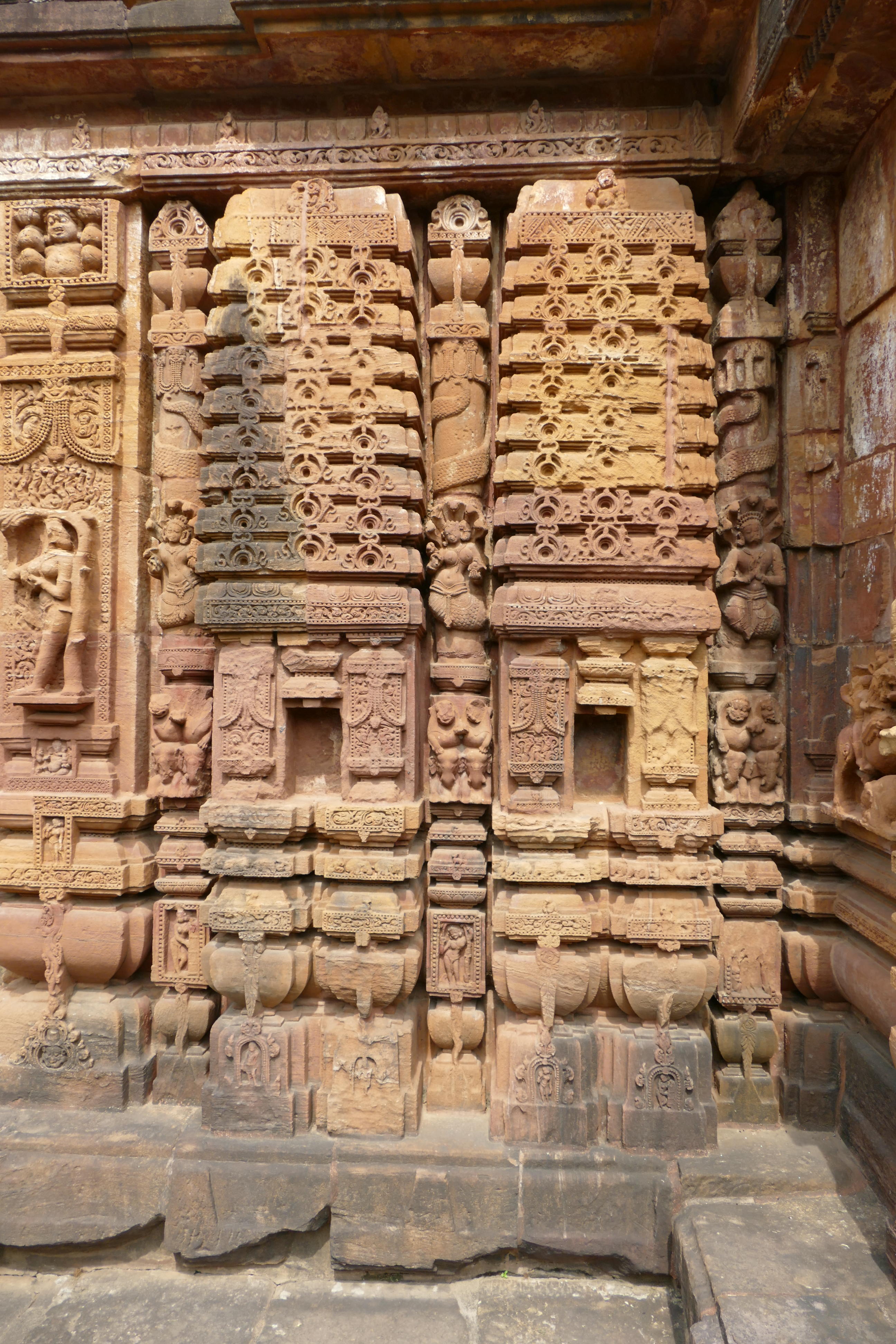 Decorations of the Mukteshvara Temple of Bhubaneswar